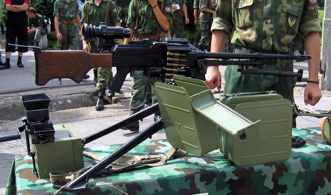 General purpose machine gun Zastava M84 7.62 mm, manufactured by Zastava Arms of Kragujevac, Republic of Serbia.